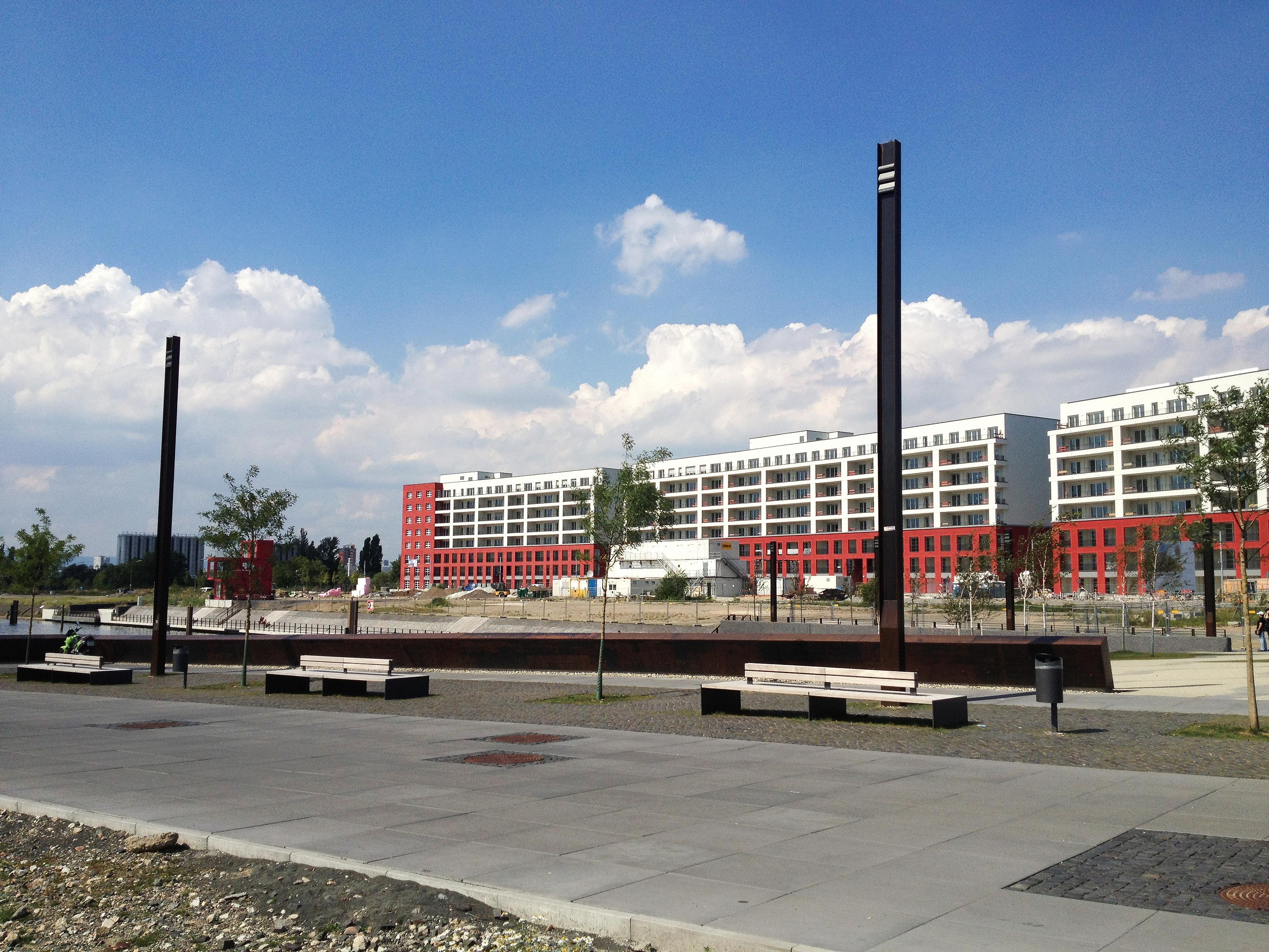 Port Offenbach, August 2013